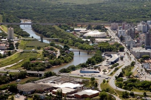 image sinos river valley